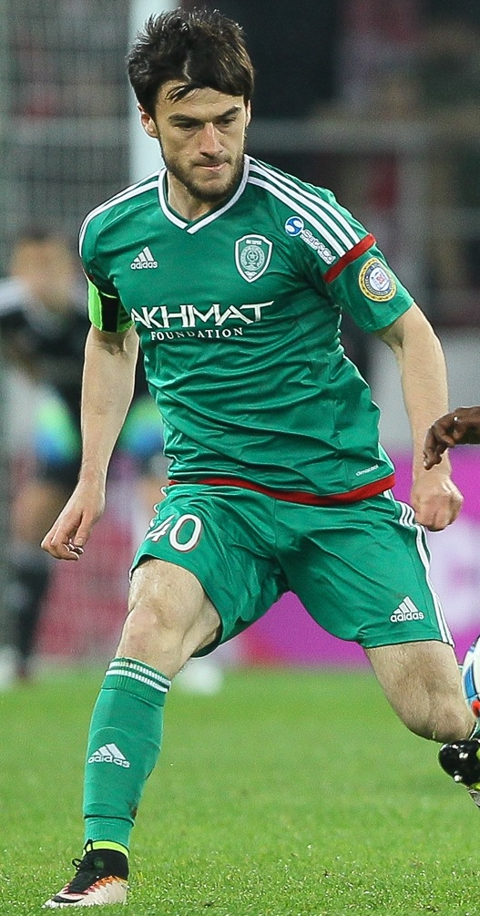 Rizvan Utsiyev in action for FC Terek Grozny in a game against FC Spartak Moscow on 16 May 2016.